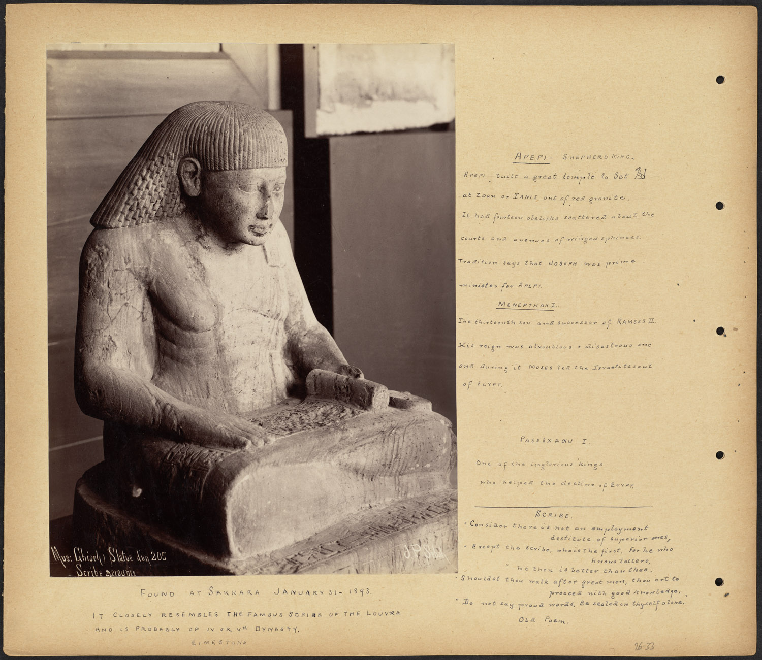 BPLDC no.: 08_04_000034 Page Title: Limestone Statue of Scribe Collection: Tupper Scrapbooks Collection Album: Volume 26: Lower Egypt. Pyramids. Call no. 4098B.104 v26 (p. 33) Creator: Tupper, William Vaughn Description: Scrapbook page containing a photograph of a limestone statue of a scribe, annotated with information about Egyptian rulers and a poem about the role of a scribe. Subjects: Egypt statue scribes Page size: 33 x 38.1 cm Annotations: Apepi- Shepherd King. Apepi built a great temple to Set at Zoan or Tanis out of Red Granite. It has fourteen obelisks scattered about the courts and avenues of winged sphinxes. Tradition says that Joseph was prime minister for Apepi. Menepthah. I. The thirteenth son and a successor of Ramses II. His reign was a troublous and disastrous one and during it Moses led the Israelites out of Egypt. Pasebxanu I. One of the inglorious kings who helped the decline of Egypt Scribe. "Consider there is not an employment destitute of superior ones, Except the scribe, who is the first. For he who knows letters, he then is better than thee. Shouldst thou walk after great men, tou art to proceed with good knowledge, Do not say proud words. Be sealed in thyself alone." Old Poem Language: English, photograph titled in French Rights: No known restrictions. Coverage: Egypt Notes: Title supplied by cataloger, derived from captions or annotated information. Format: Scrapbooks Technique: Photographs, Albumen prints BPL Department: Print Department Photo 1: Photographer: Sébah, J. Pascal Title: Mus: Ghiseh statue don 205 scribe acroupie Caption: Found at Sakkara January 31- 1893. It closely resembles the famous scribe of the Louvre and is possible of IV or Vth Dynasty. Limestone. Date: ca. 1860-1890